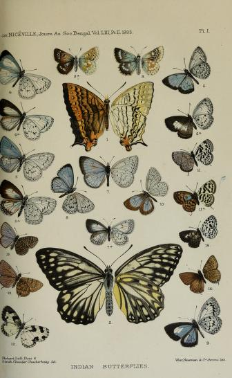 de Nicéville, L., [1884]. On new and little-known Rhopalocera from the Indian Region. Journal of the Asiatic Society of Bengal 1832 plate 1 EXPLANATION OF THE PLATES. Plate I. Fig. 1. Cyrestis tabula, n. sp. male accepted name Cyrestis tabula de Nicéville, 1883 Fig. 2. Hestina zella Butler female Hestina persimilis (Westwood, 1850) ssp. zella Butler, 1869 Fig. 3. Lycaena leela n. sp. male accepted name Lycaena orbitulus (Esper , 1800) var. leela de Niceville Fig. 3a Lycaena leela n. sp. female Fig. 4. Cyaniris albocaeruleus Moore male accepted name Udara albocaerulea (Moore, 1879) Fig. 4a. Cyaniris albocoeruleus Moore female Fig.5. C. dilectus, Moore, male accepted name Udara dilectus (Moore, 1879) Fig. 5a C. puspa Horsfield female accepted name Acytolepis puspa (Horsfield, 1828) Fig. 6. Cyaniris transpectus, Moore male accepted name Lestranicus transpectus (Moore, 1879) Fig. 6a Cyaniris transpectus, Moore female Fig. 7. C iynteana, n. sp. male accepted name Celastrina argiolus (Linnaeus, 1758) ssp. iynteana (de Nicéville, 1884) Fig. 7a C iynteana, n. sp. female Fig 8. C. placida, n. sp. male accepted name Celastrina lavendularis (Moore, 1877) ssp. limbata (Moore, 1879) Fig 9. C. marginata, n. sp. male accepted name Celatoxia marginata (de Nicéville, [1884]) Fig. 10 C. chennellii, n. sp. male accepted name Bothrinia chennellii (de Nicéville, 1884) . Fig. 11. Castalius ananda n. sp.male accepted name Tarucus ananda (de Nicéville, [1884]) Fig. 11a Castalius ananda n. sp. female Fig. 12.C. interruptus n.sp. female accepted name Caleta decidia (Hewitson, 1876) Fig. 13. Nacaduba bhutea n. sp., male accepted name Prosotas bhutea (de Nicéville, [1884]) Fig. 14. N. nora, Felder accepted name Prosotas nora (Felder, 1860) Fig 15. Nacaduba ? dana, n. sp. male accepted name Petrelaea dana (de Nicéville, [1884]) Fig. 16 Miletus hamada, Druce male accepted name Taraka hamada (Druce, 1875)